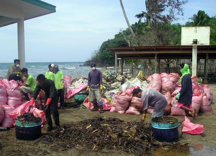 Clean up in Barangay La Paz which is one of the most severely affected areas, after the the M/T Solar oil tanker sank off the Guimaras Strait, Philippines, on 11 August 2006. Olympus Camedia (August 2006, Packard-ICOMP Study Visit). Slightly improved with Picasa.